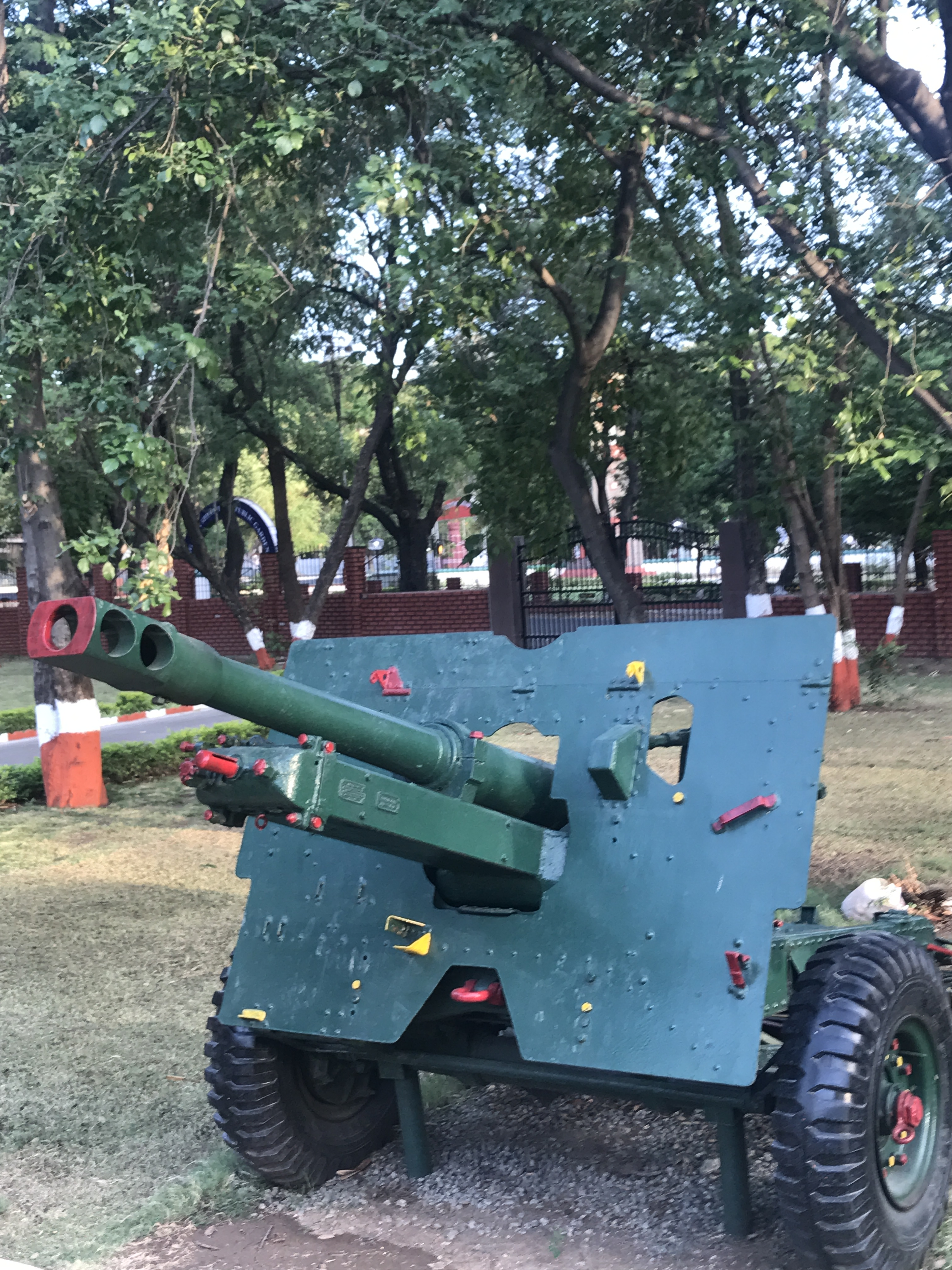 This artillery Gun is of 1942 vintage and of UK origin. The gun was used very extensively by Indian Army in 1962, 1965 and 1971 operations. Combining high-angle, direct-fire and relatively high rates of fire with mobility, it could engage targets upto a range of 12,252 meters. This gun was served with a crew of six and was capable of firing a 'Super Charge' for enhanced Anti-tank use.